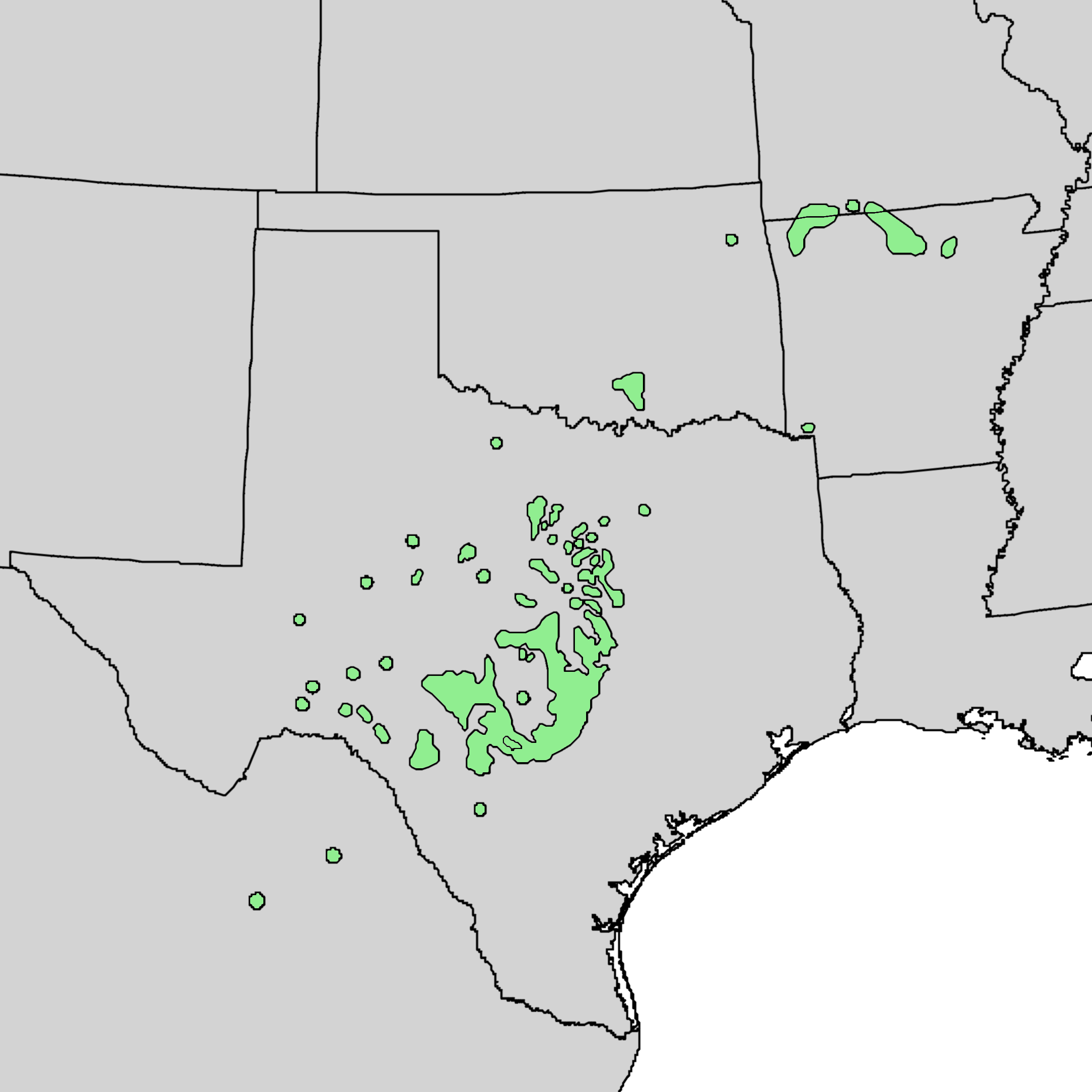 Natural distribution map for Juniperus ashei (Ashe juniper)